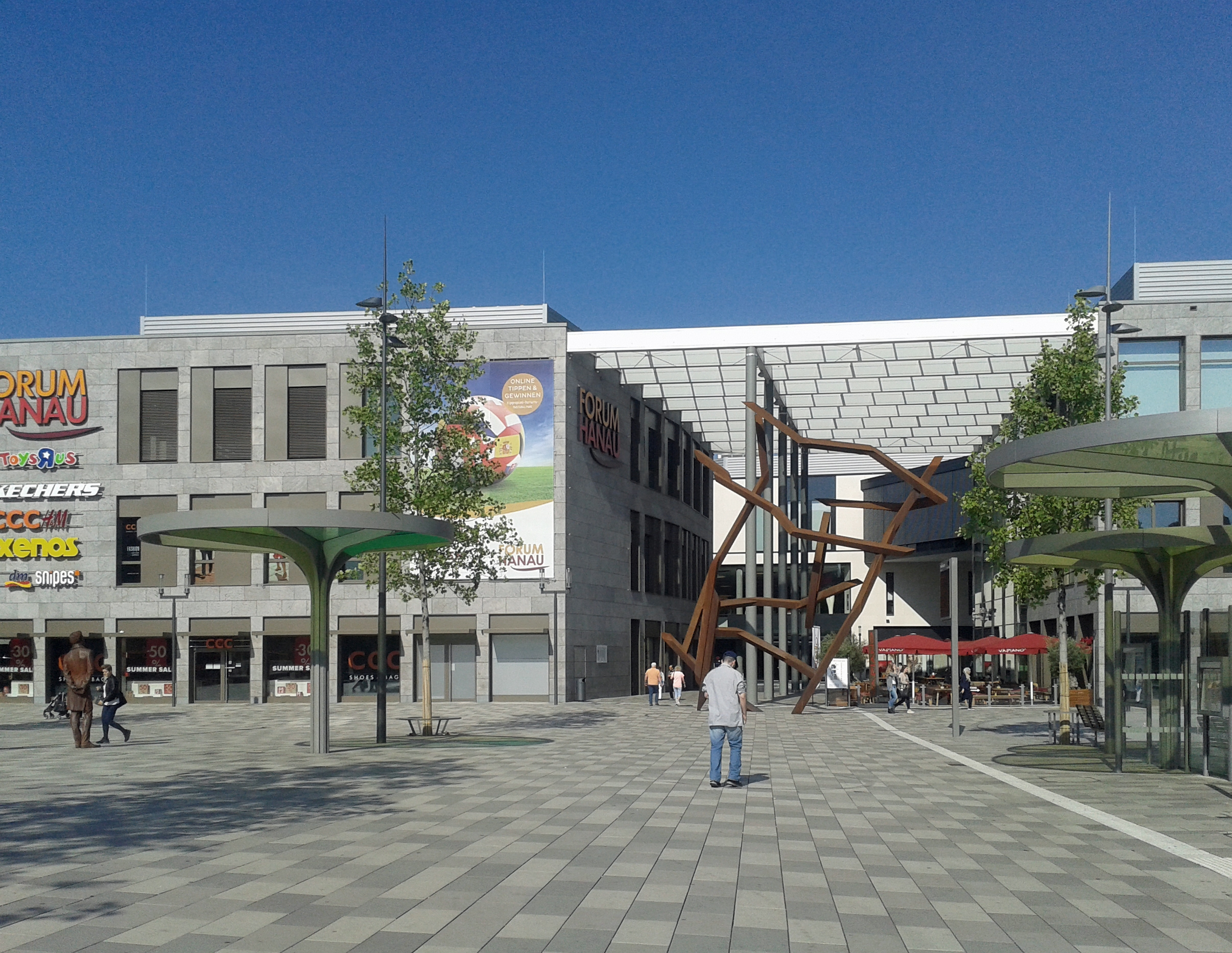 Monument for Moritz Daniel Oppenheim, Moritz und das tanzende Bild (Moritz and the dancing painting), Hanau, Freiheitsplatz, by Robert Schad